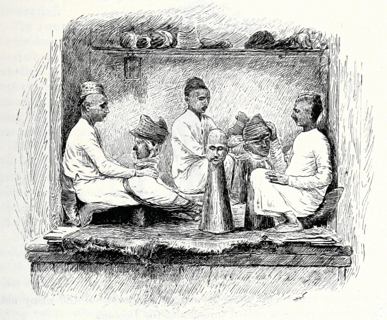 Image taken from: Title: "Picturesque India. A handbook for European travellers, etc. [With maps.]" Author: CAINE, William Sproston. Shelfmark: "British Library HMNTS 010057.ee.7.", "British Library OC ORW.1986.a.2996" Page: 489 Place of Publishing: London Date of Publishing: 1890 Publisher: G. Routledge & Sons Issuance: monographic Identifier: 000567709 Note: The colours, contrast and appearance of these illustrations are unlikely to be true to life. They are derived from scanned images that have been enhanced for machine interpretation and have been altered from their originals. If you wish to purchase a high quality copy of the page that this image is drawn from, please order it here. Please note that you will need to enter details from the above list - such as the shelfmark, the page, the book's volume and so on - when filling out your order. Explore: Find this item in the British Library catalogue, 'Explore'. Open the page in the British Library's itemViewer (page: 489) Download the PDF for this book Click here to see all the illustrations in this book and click here to browse other illustrations published in books in the same year. Please click on the tags shown on the right-hand side for other ways to browse the illustrations.